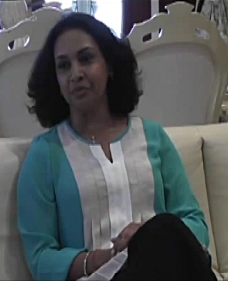 Urmila Joella, former Surinamese minister and ambassador